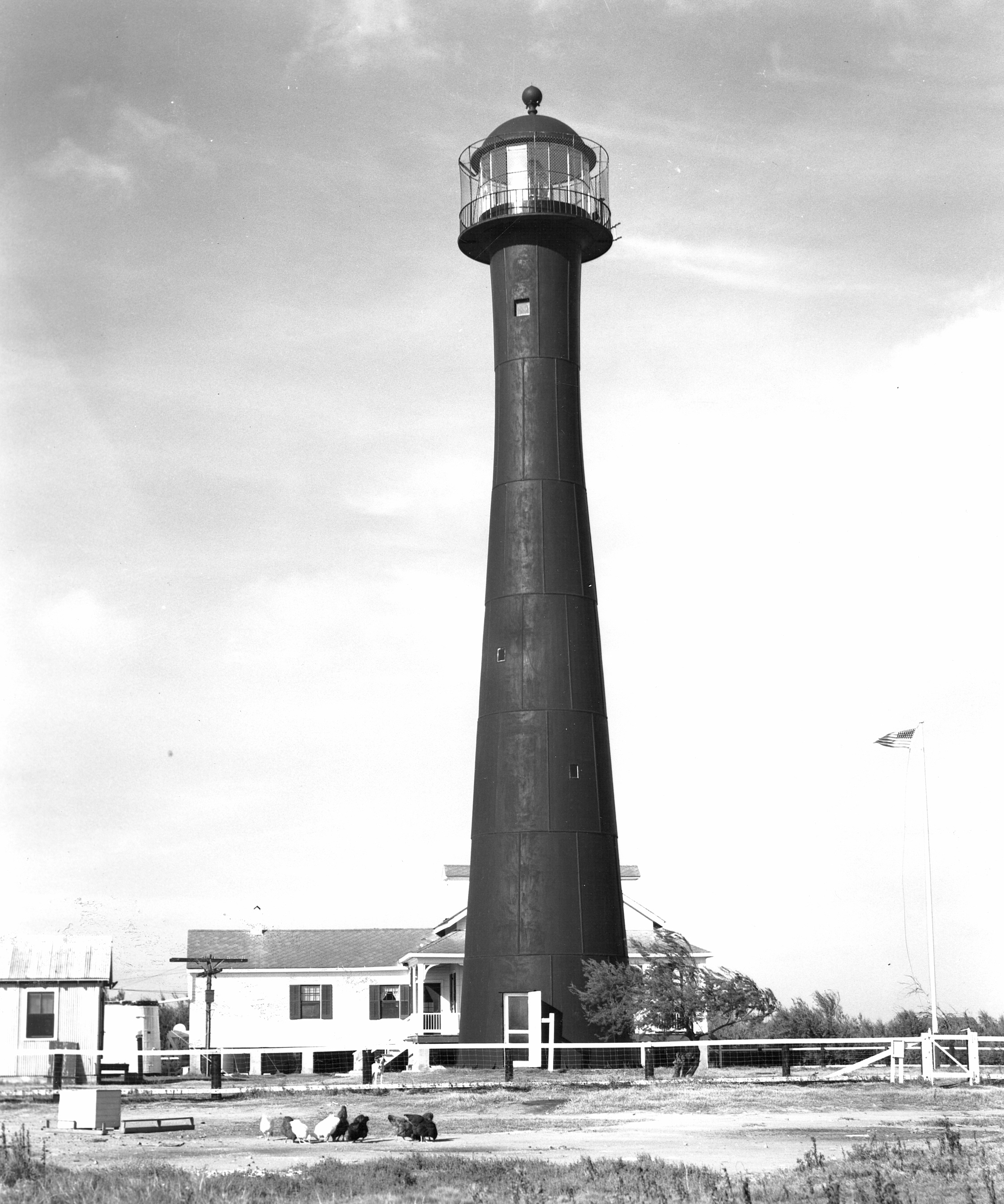 Matagorda Island Light (Calhoun County, Texas. tapered cast iron tower) Object location28° 20′ 16.4″ N, 96° 25′ 26.7″ W